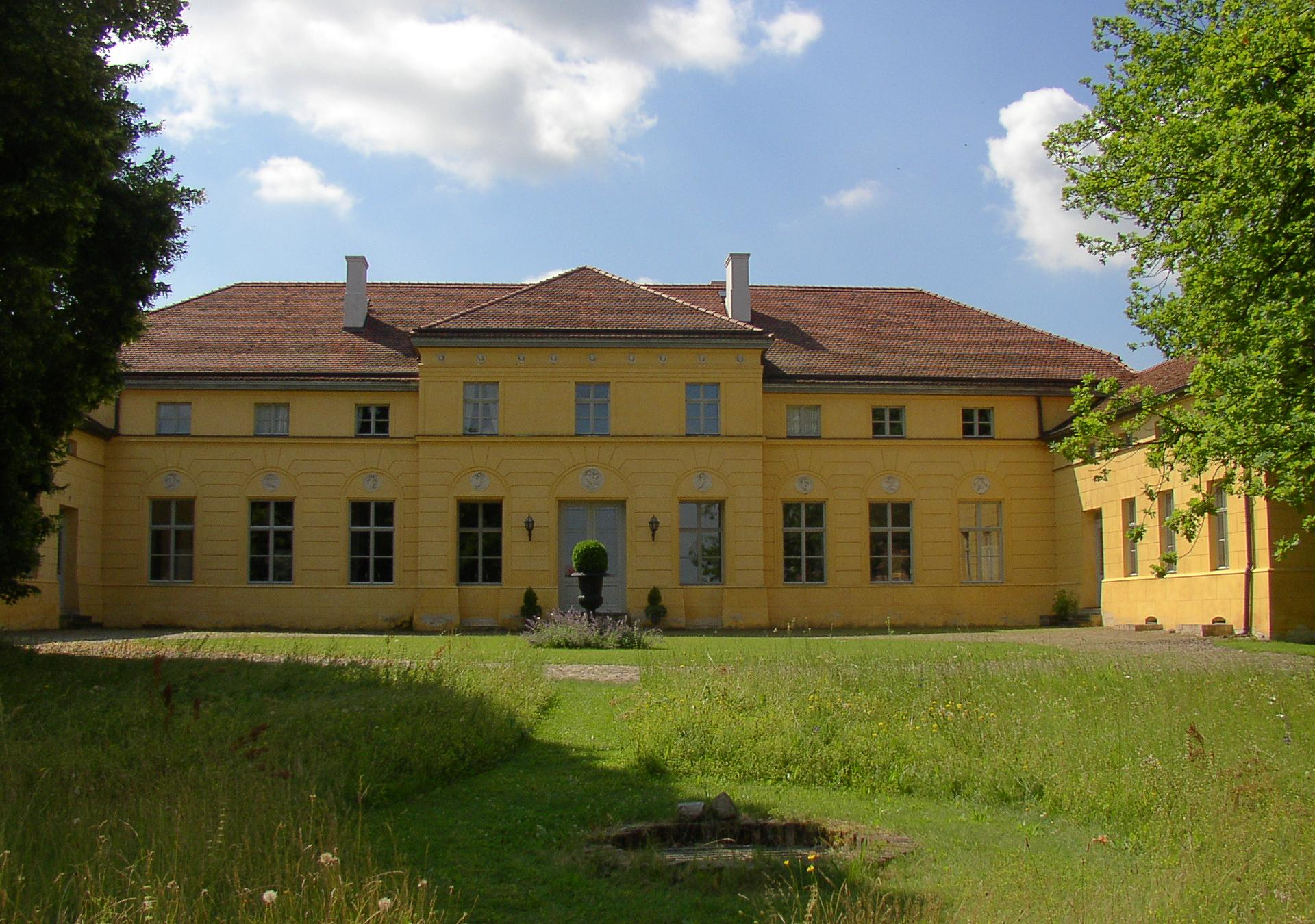 Manor-house in Kleßen in Brandenburg, Germany